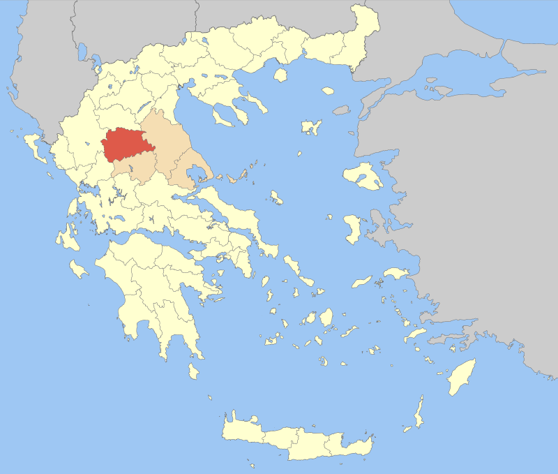 Locator map of Trikala prefecture (Νομός Τρικάλων) in Greece